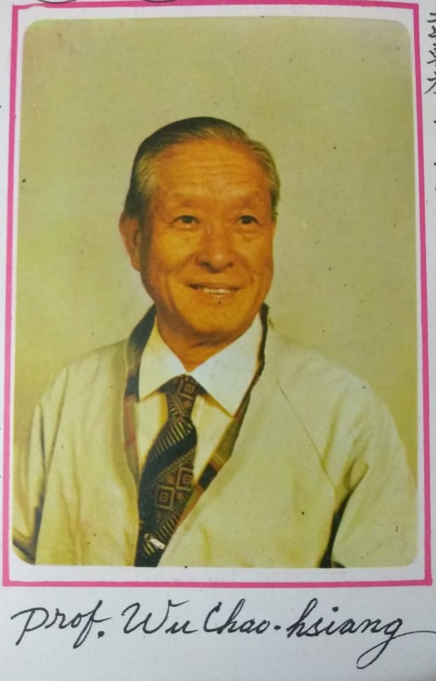 The Dr. Wu's picture in the back cover of his book "Tai chi-chuan", 5ª ed. (1988).